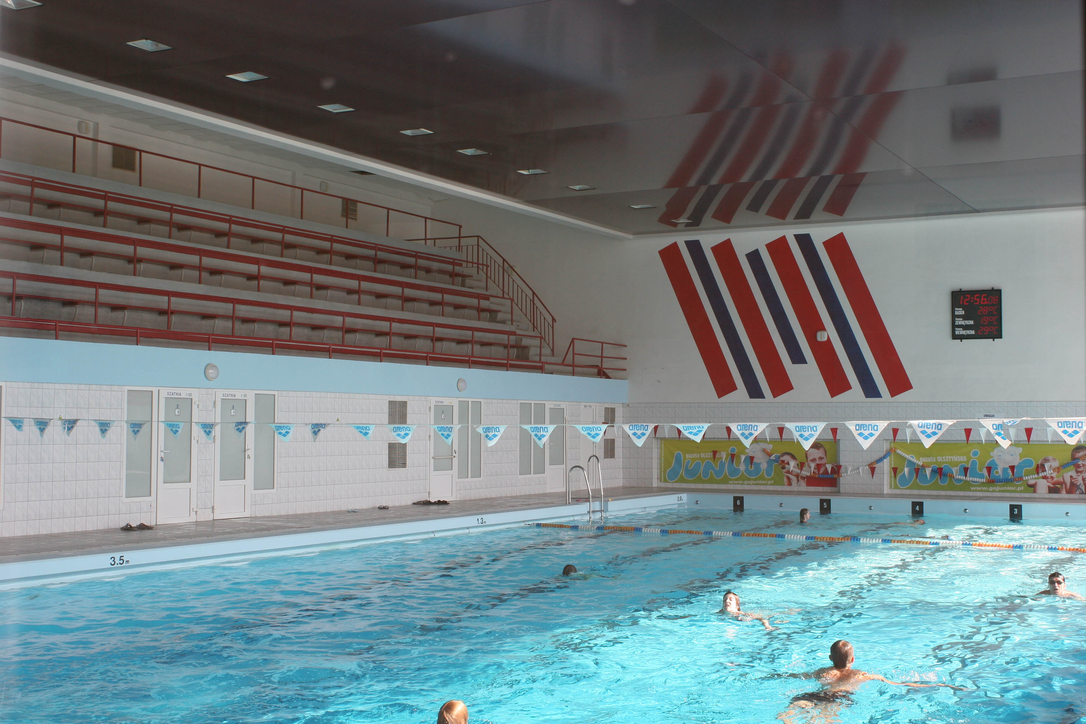 Kryty basen w Olsztynie przy ul. Głowackiego